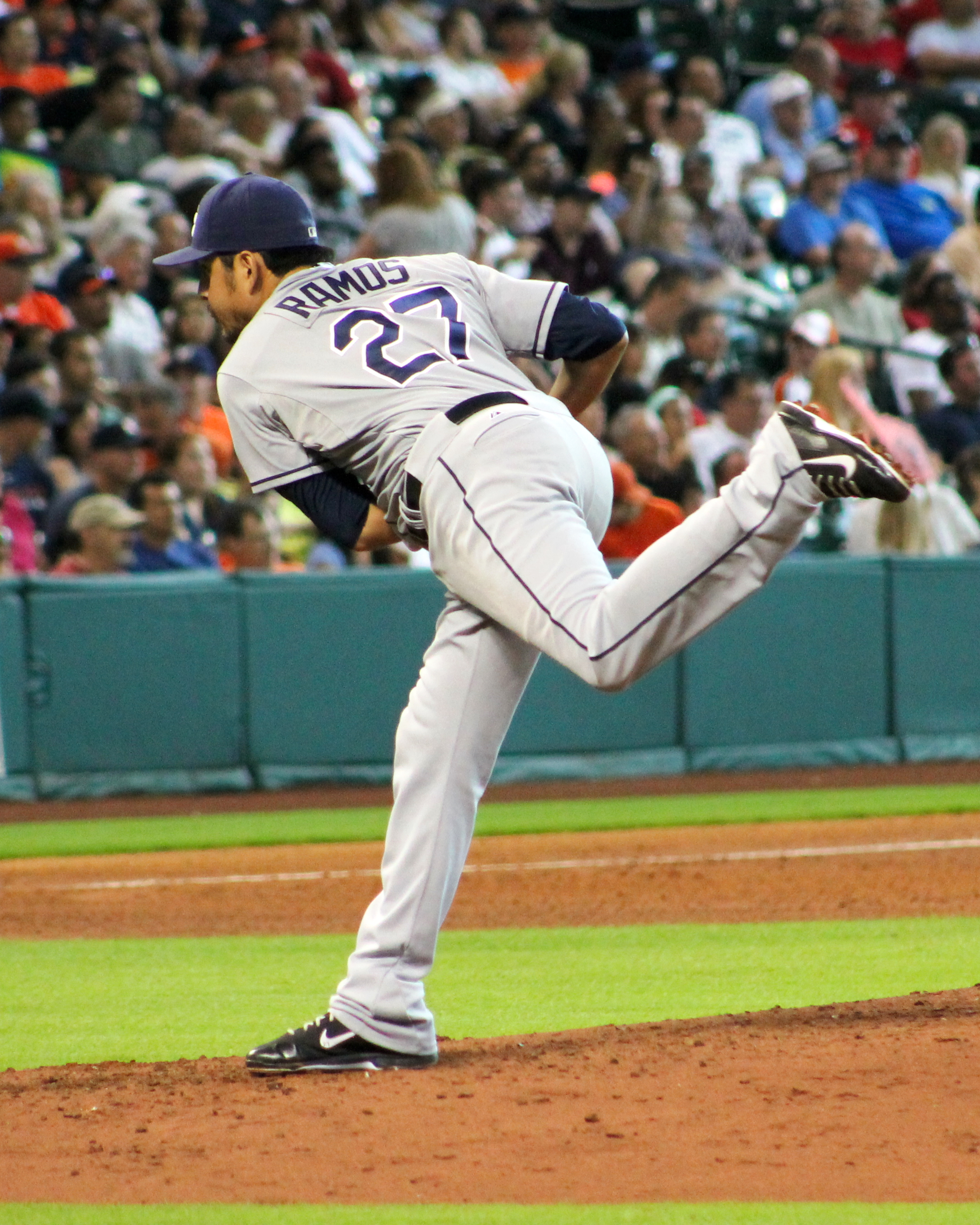 Major League Baseball pitcher Cesar Ramos during a game in Houston in June 2014.